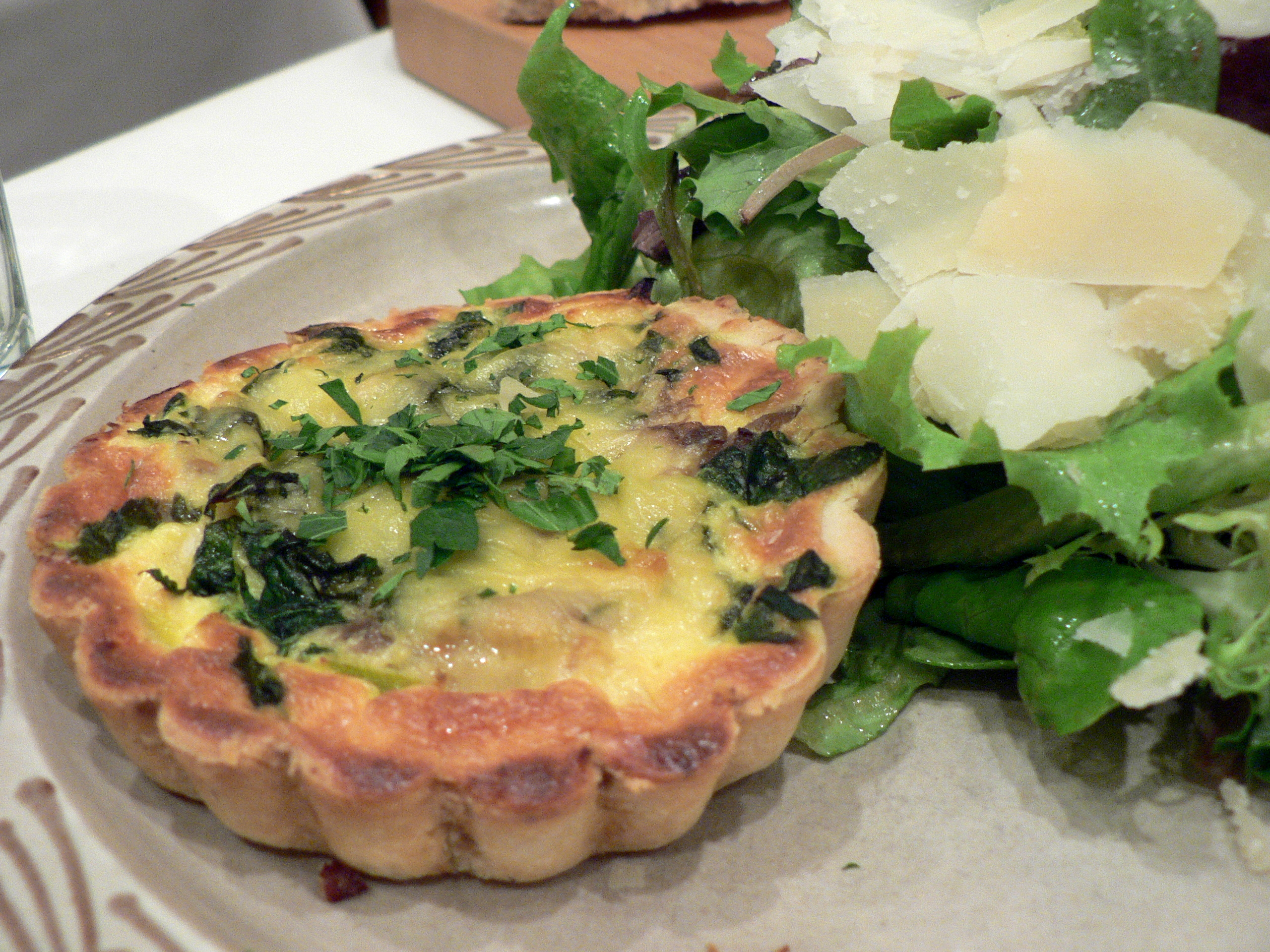 mushroom tart with garnish and slivered cheese.